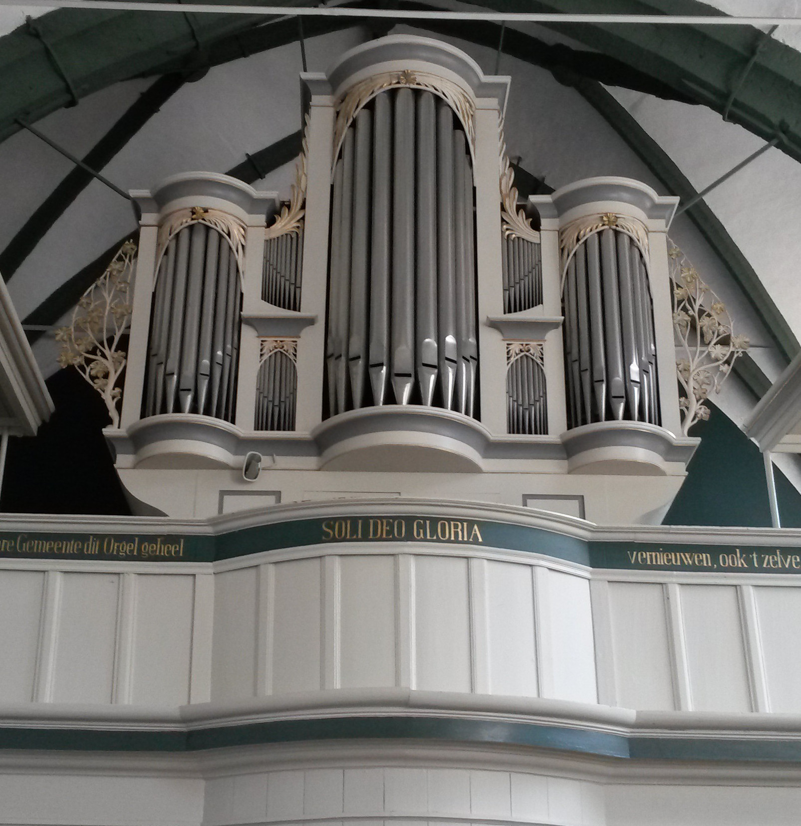 Organ of the church of Larrelt, East Frisia, Germany